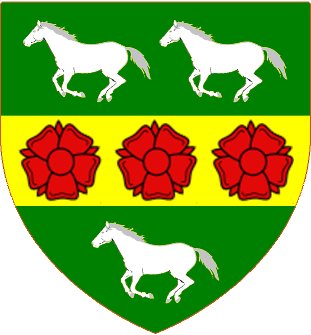 Shield of arms of The Lord Alington